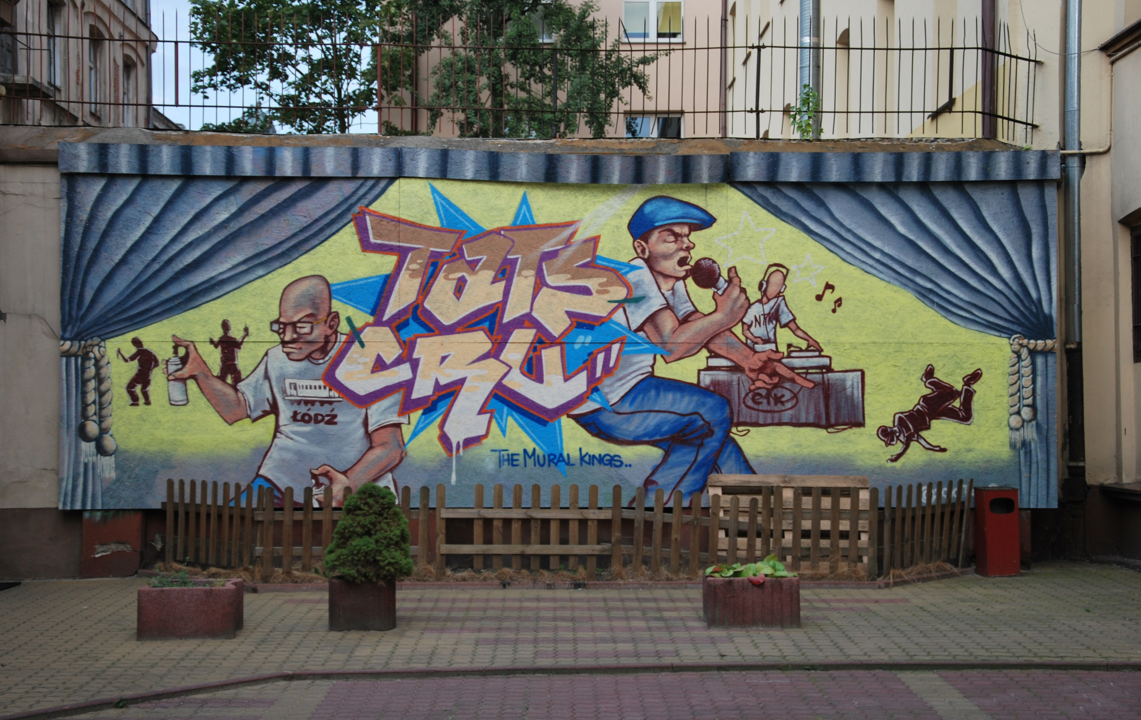 Mural of Tats Cru, Łódź 102 Piotrkowska Street yard